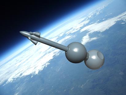 3D render of Stabilo in low orbit.